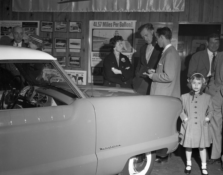 Title: Nash car dealership Creator: Adolph B. Rice Studio Date: March 20, 1954 Identifier: Rice Collection 294F Format: 1 negative, safety film, 4 x 5 in. Repository: Library of Virginia, Prints and Photographs, 800 E. Broad St., Richmond, VA, 23219, USA, :8881/R